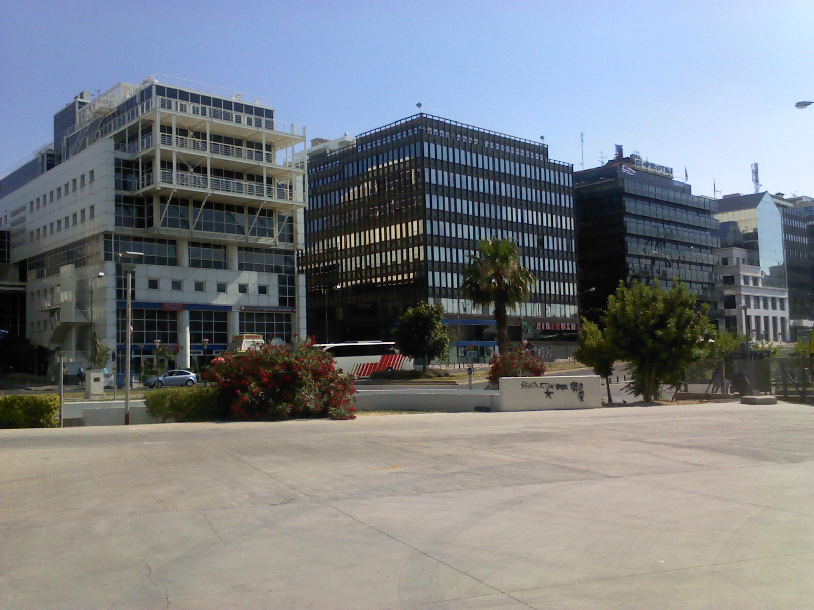 Akti Miaouli Karvouniarika